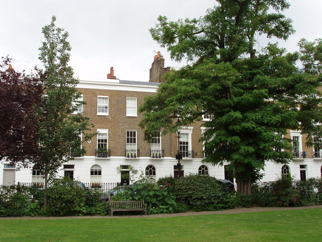 Paulton Square The houses in the square were built in 1840. View from garden in the middle of the square.